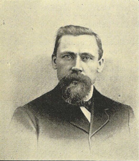 "Hon. John Collins," from brochure Seattle and the Orient (1900). Collins was a prominent Seattle businessman and politician (briefly mayor in 1873–1874).